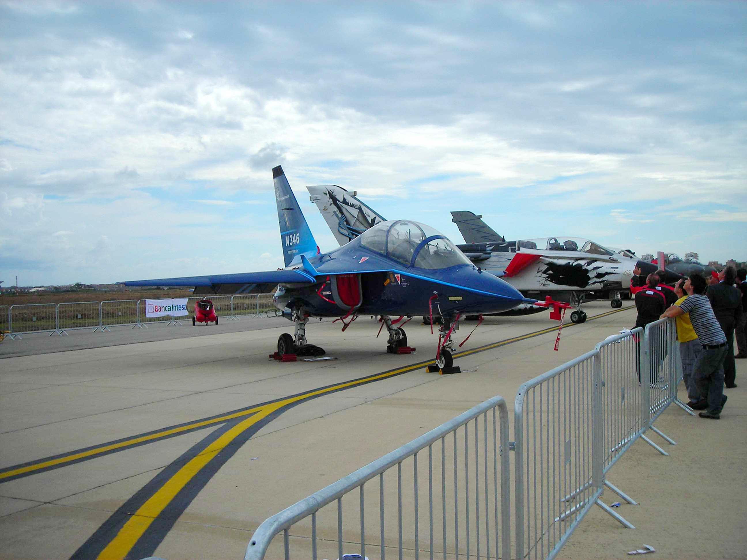 Advanced trainer Aermacchi M-346, currently under development. Picture taken during "Giornata Azzurra" 2006 (Italian Air Force airshow) at Pratica di Mare AFB, Italy.